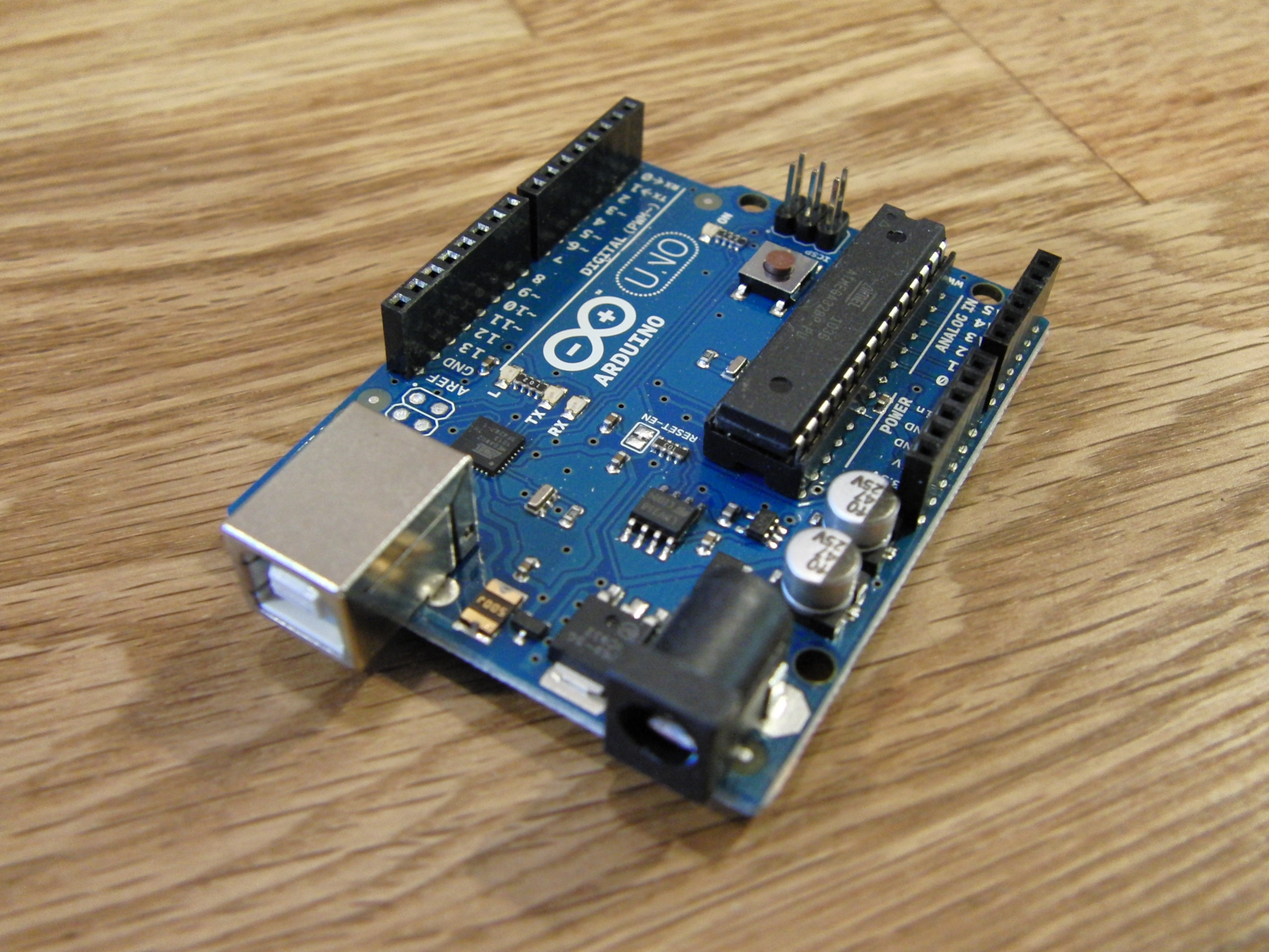 A Arduino Uno board.